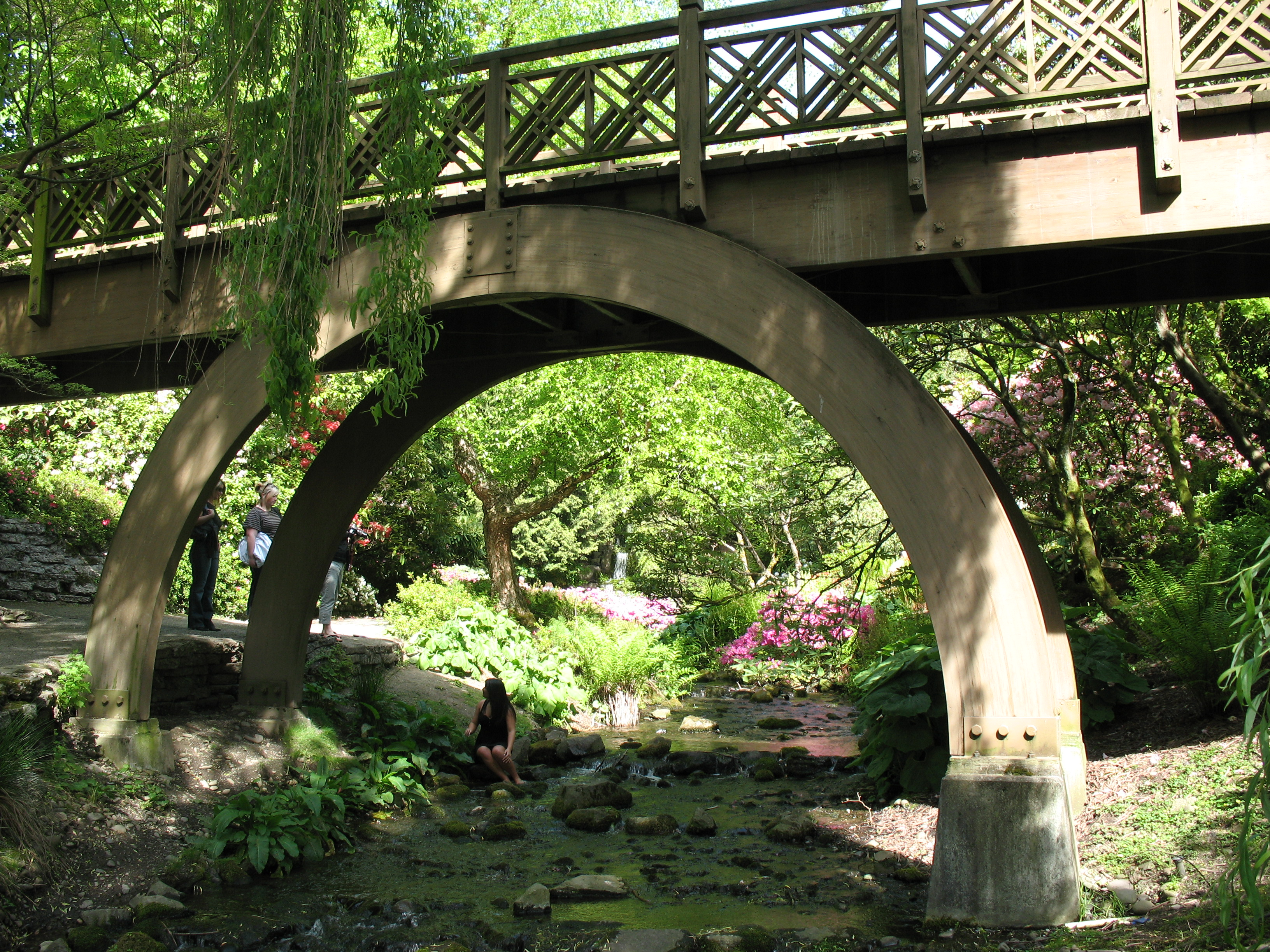 The bridge at the Crystal Springs Rhododendron Garden in Portland, Oregon.